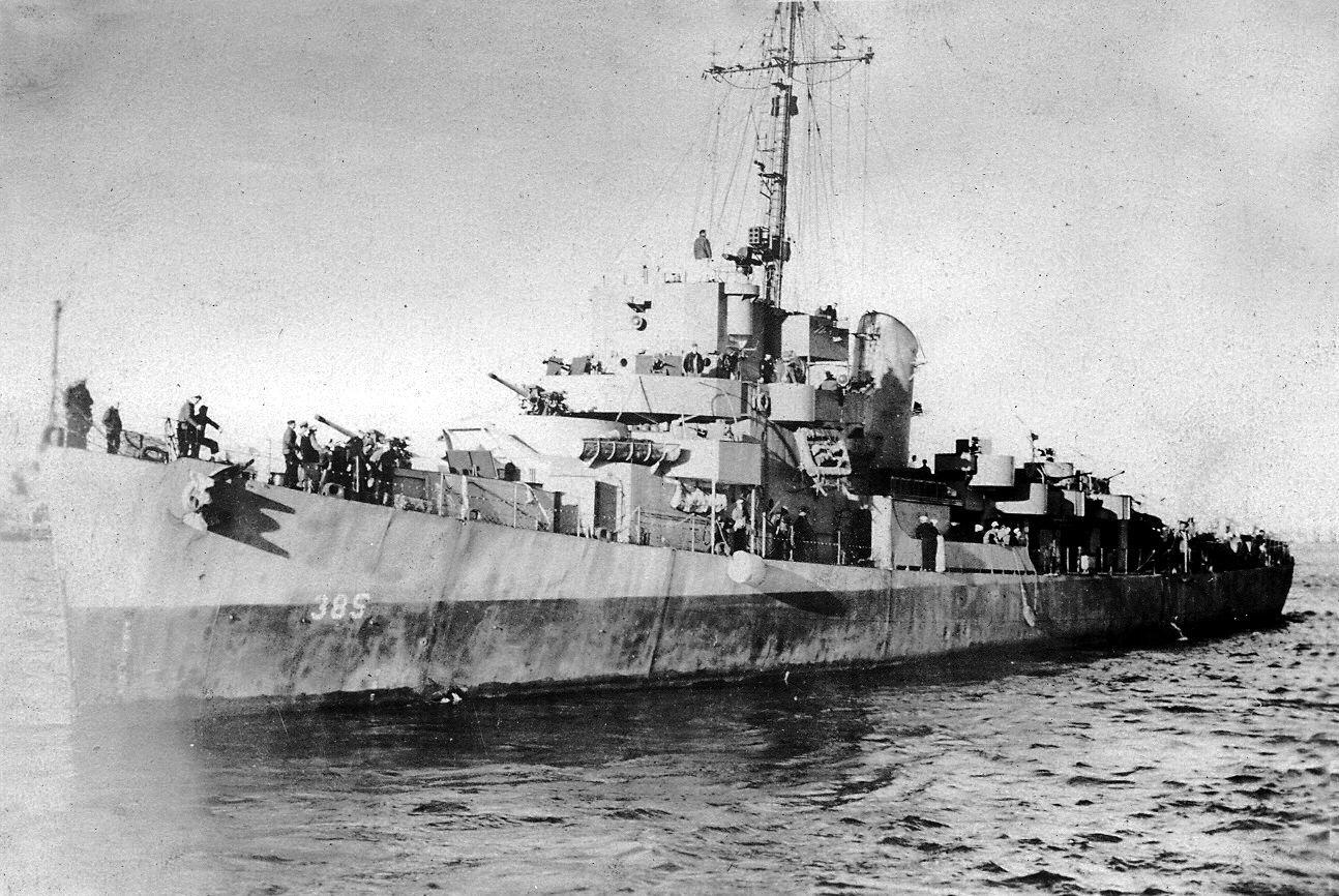 The U.S. Navy destroyer escort USS Richey (DE-385) underway, circa in 1944.